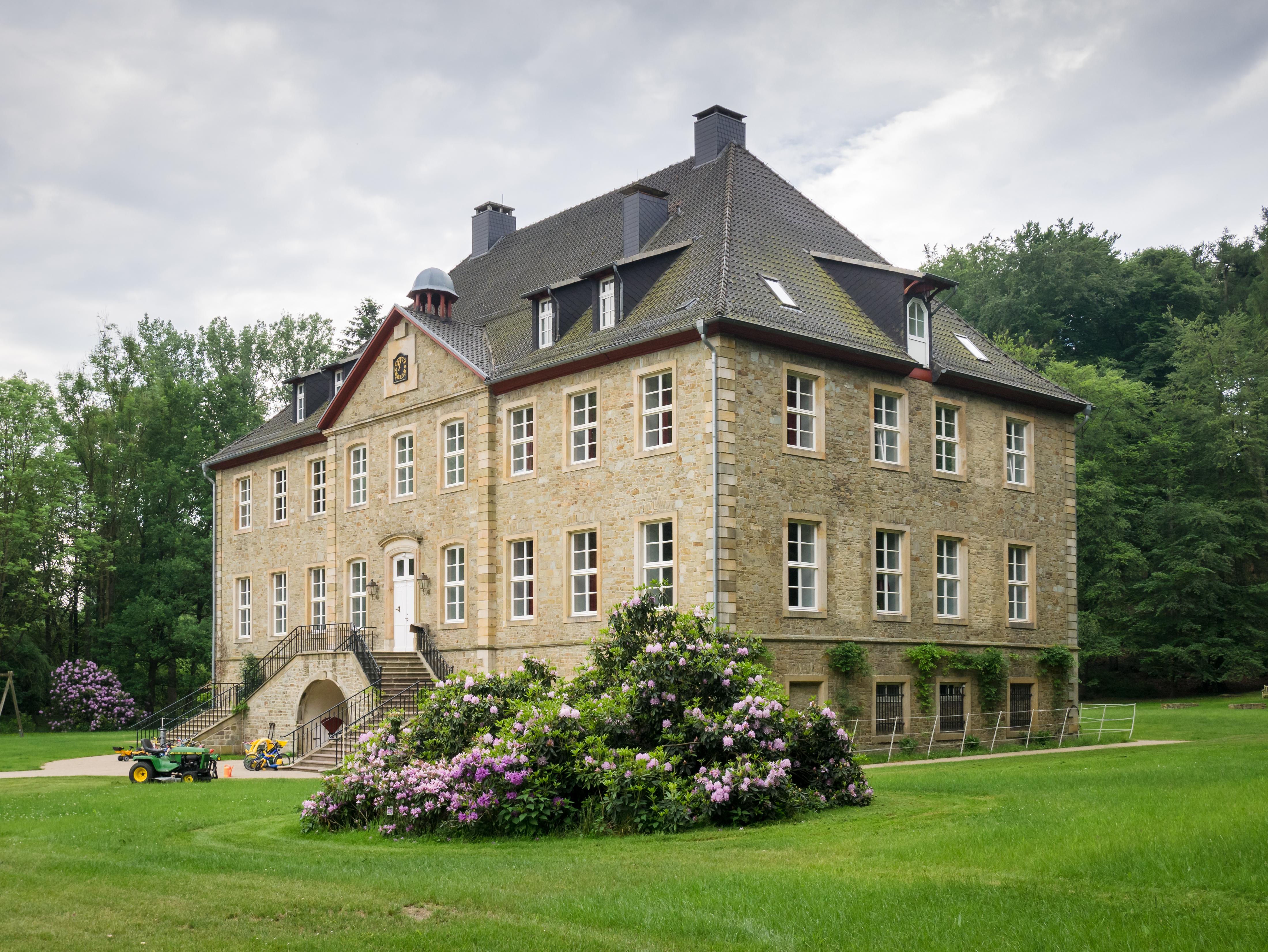 Krebsburg Manor. Ostercappeln, Osnabrück Land, Lower Saxony, Germany